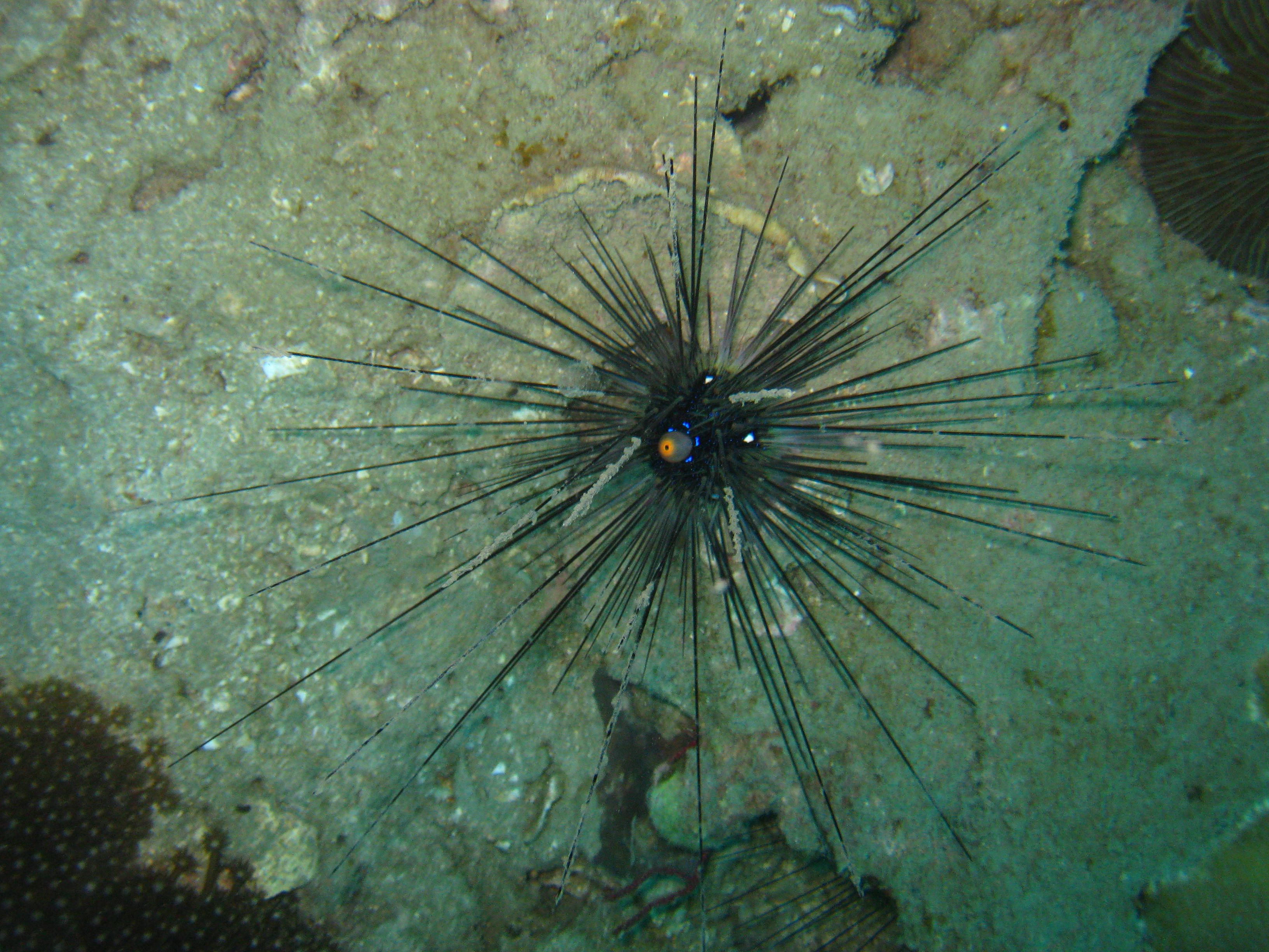 A young and thin Diadema setosum